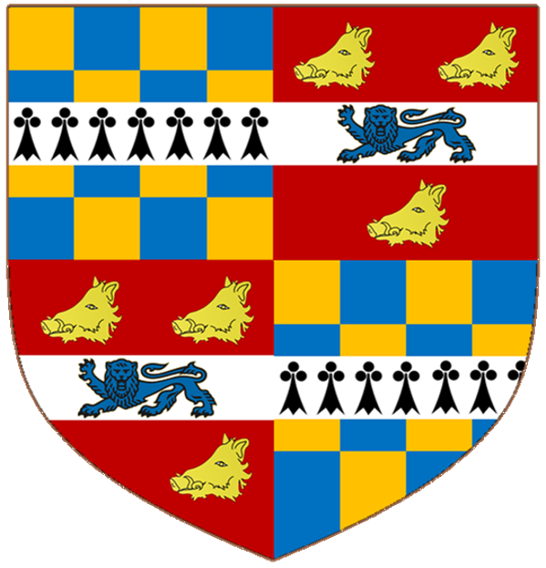 Shield of arms of The Lord Calthorpe